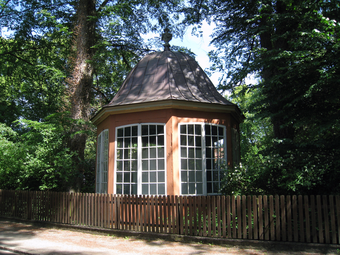 Baroque garden pavilion in Bremen-Oberneuland (Germany).